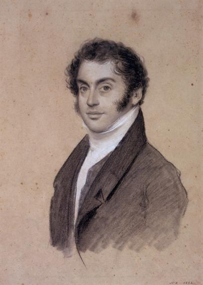 João Baptista Felgueiras (1787-1848)